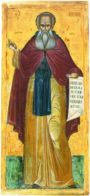 Icon of Saint Dionysius of Gorentsi, 15 Century, Mount Athos